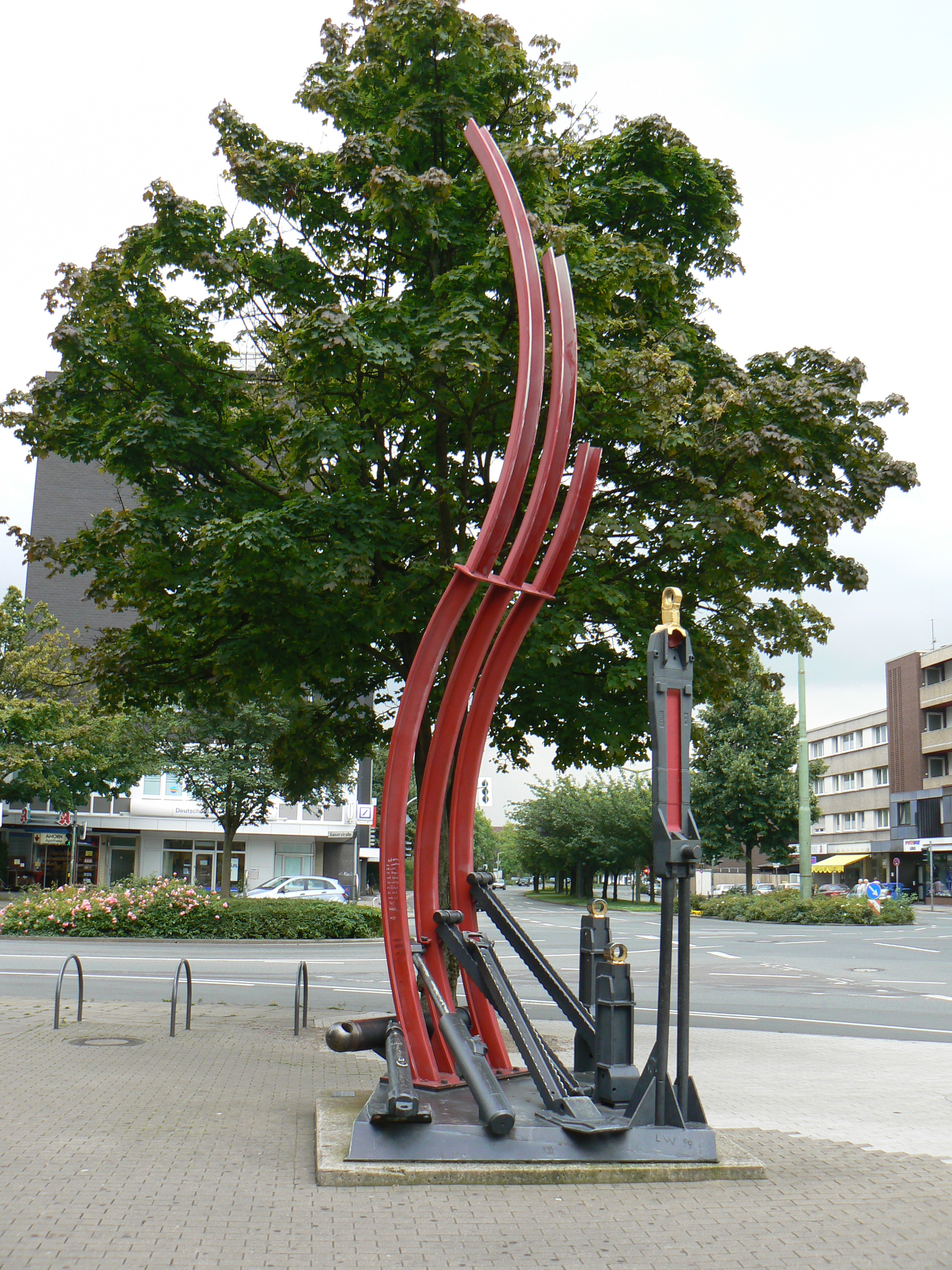 Sculpture: Aufbruch (1999) by Leonard Wübbena in Herten/Germany